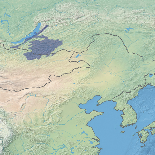 Ecoregion PA0609: Trans-Baikal conifer forests